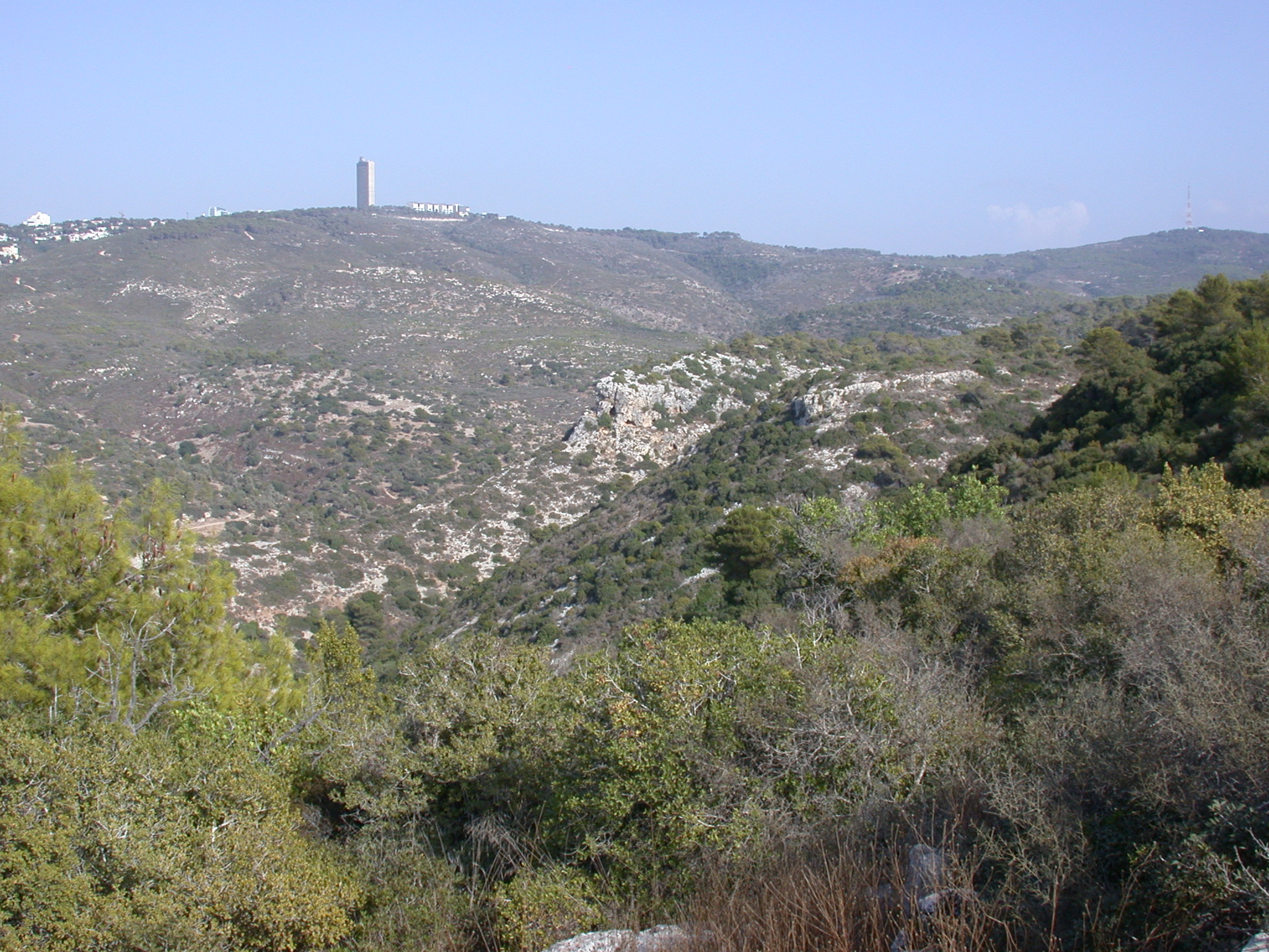 Mediterranean shrubland/scrubland on Mount Carmel, Israel, October 20, 2007. The tower and the buildings on its right belong to Haifa University.